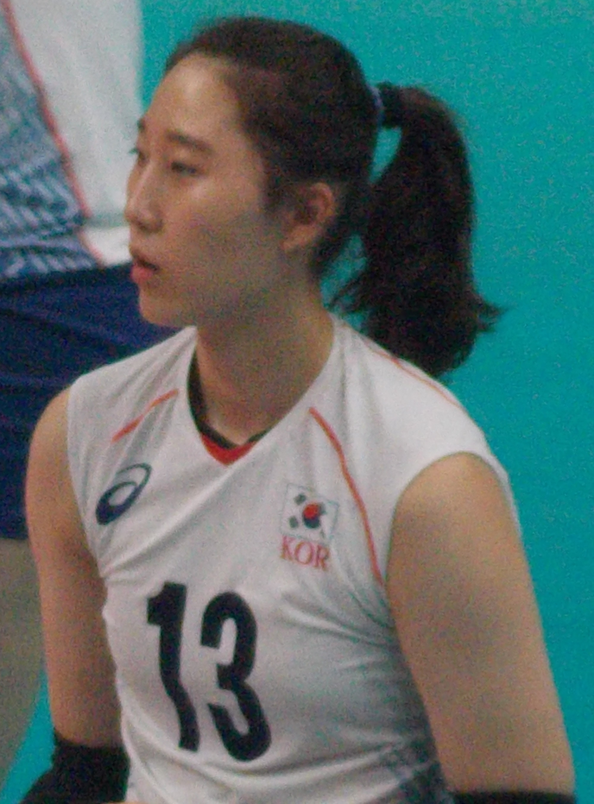 Volleyball at the 2016 Summer Olympics – Women's tournament: South Korea 1x3 Netherlands (19–25, 14–25, 25–23, 20–25).